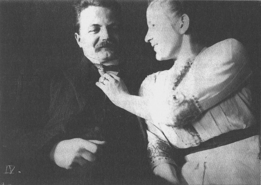 Photograph of the Finnish mathematician Aarne Kuusi (1881–1968) and his wife Alli née Zidbäck (1892–1958).